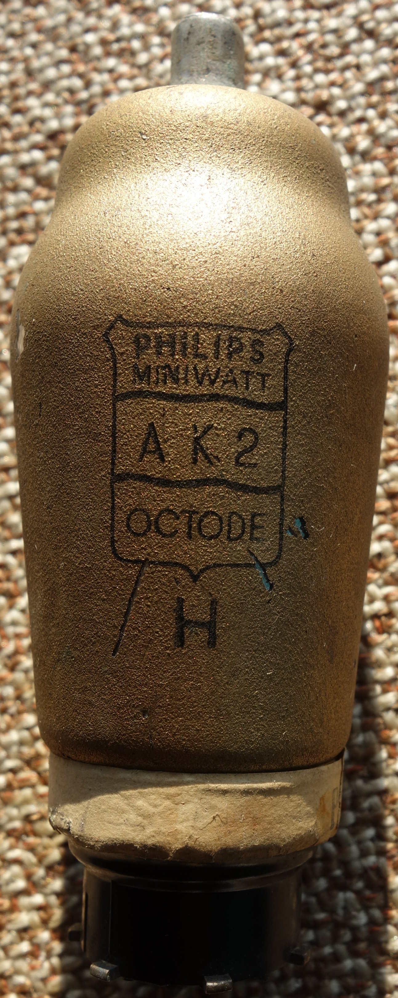 AK2 octode Philips Miniwatt